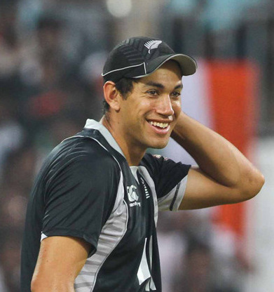 Ross Taylor, India Vs New zealand One day International, 10 December 2010